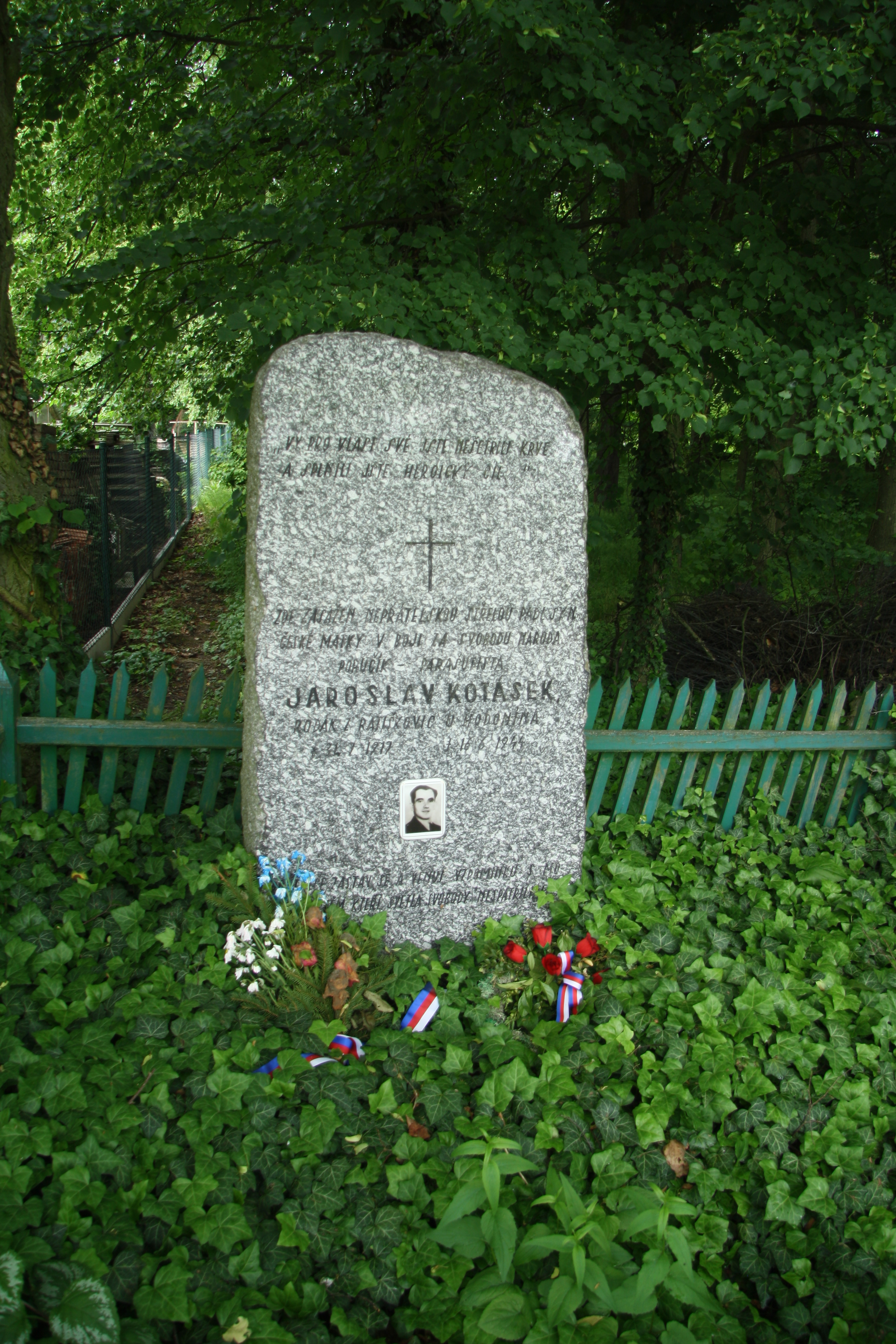 Overview of Jaroslav Kotásek Memorial near Myslibořice, Třebíč District.